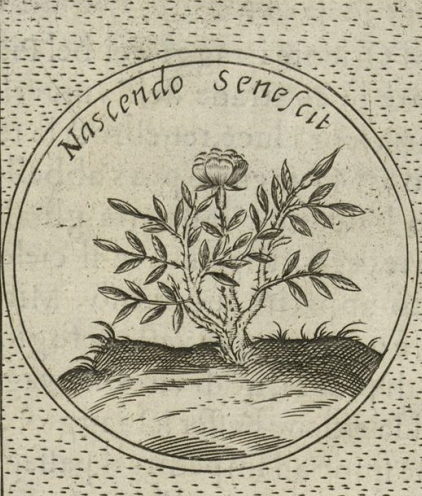 Engraving by Giacomo Sarzina,an emblem showing a rose and entitled "nascendo senescit" - "in being born it dies".